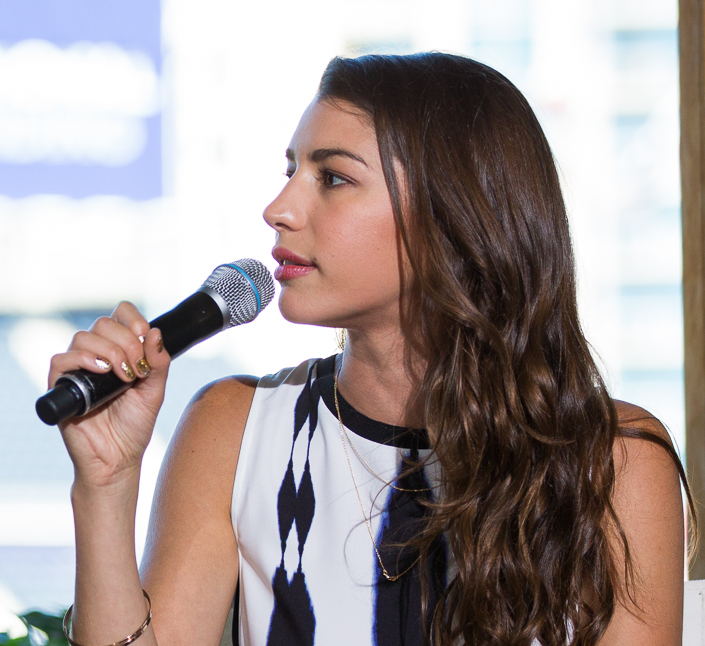 Camp Conival offsite at Petco Park during San Diego Comic-Con 2016